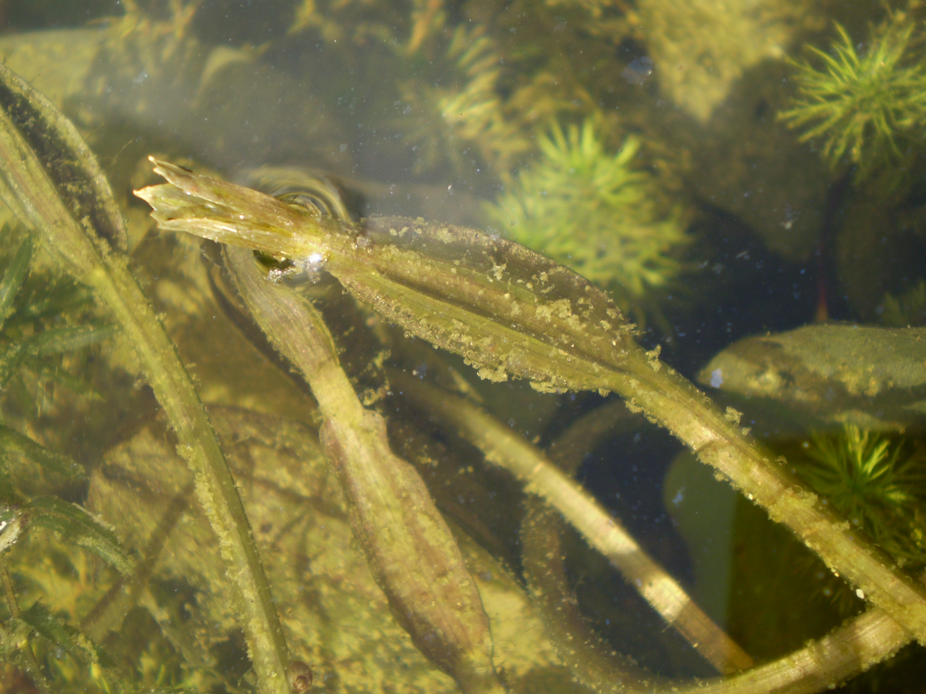 Fruits(Ovaries) of Ottelia alismoides(Ottelia japonica)